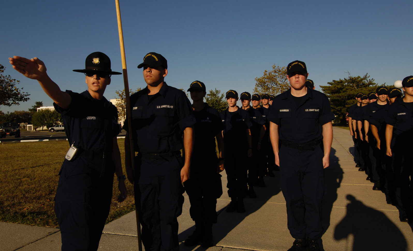 CAPE MAY, N.J. (Sept. 24, 2005) Coast Guard Company Commander Petty Officer Jamie Cooper instructs a recruit outside the dining facility at Coast Guard Training Center Cape May, NJ.